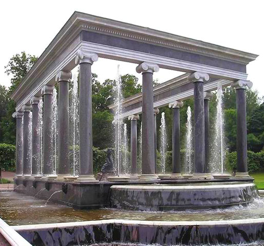 Lviny ('Lion') cascade in Peterhof